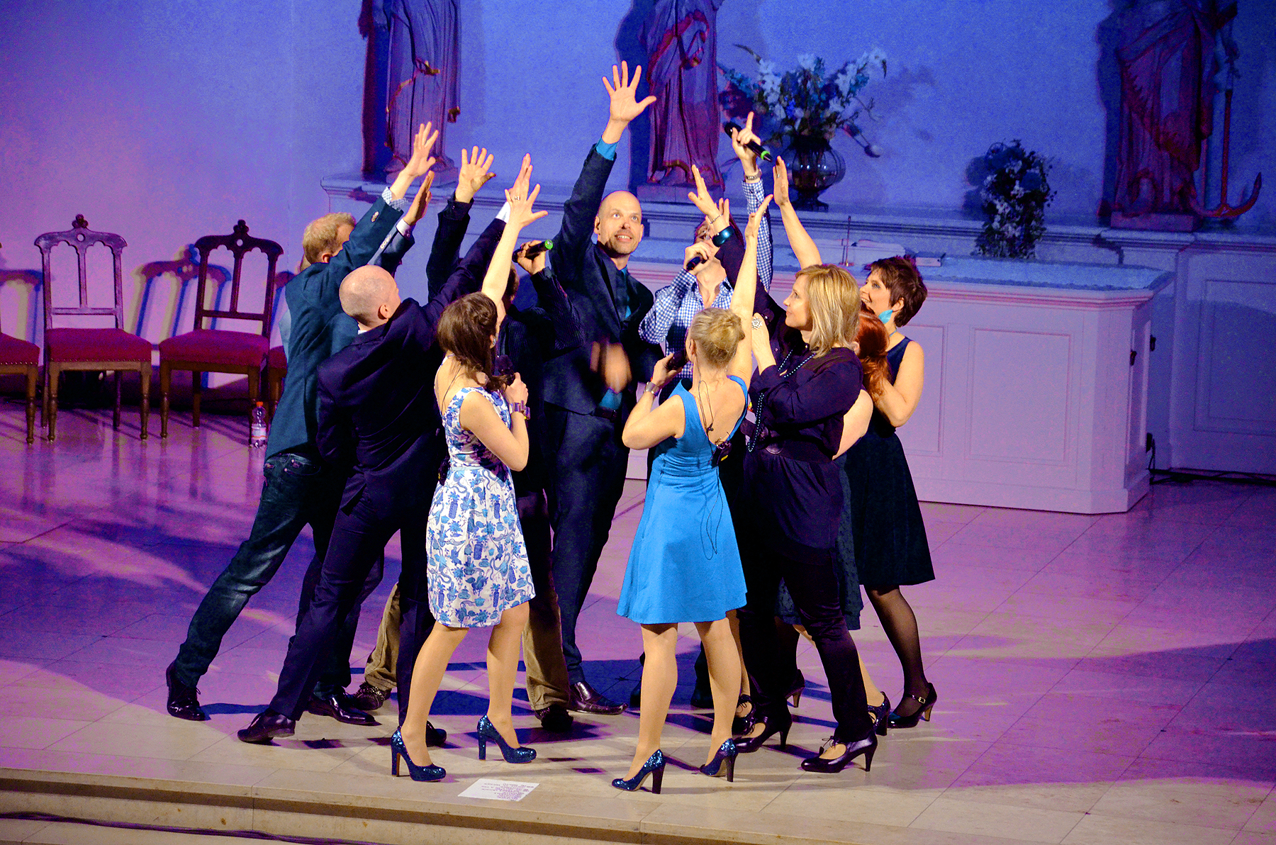 The 15th International A Capella Week Hannover (German: 15. Internationale A-cappella-Woche Hannover) from April 4 to May 5, 2015 had been opened by Seveneleven in the Neustädter Hof- und Stadtkirche in Hannover ...